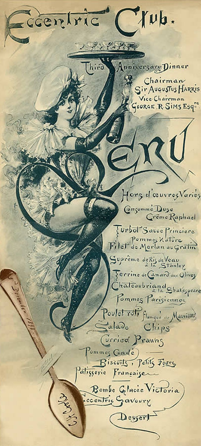 Eccentric Club Menu December 1893, 184 x 407mm (7¼ x 16in)